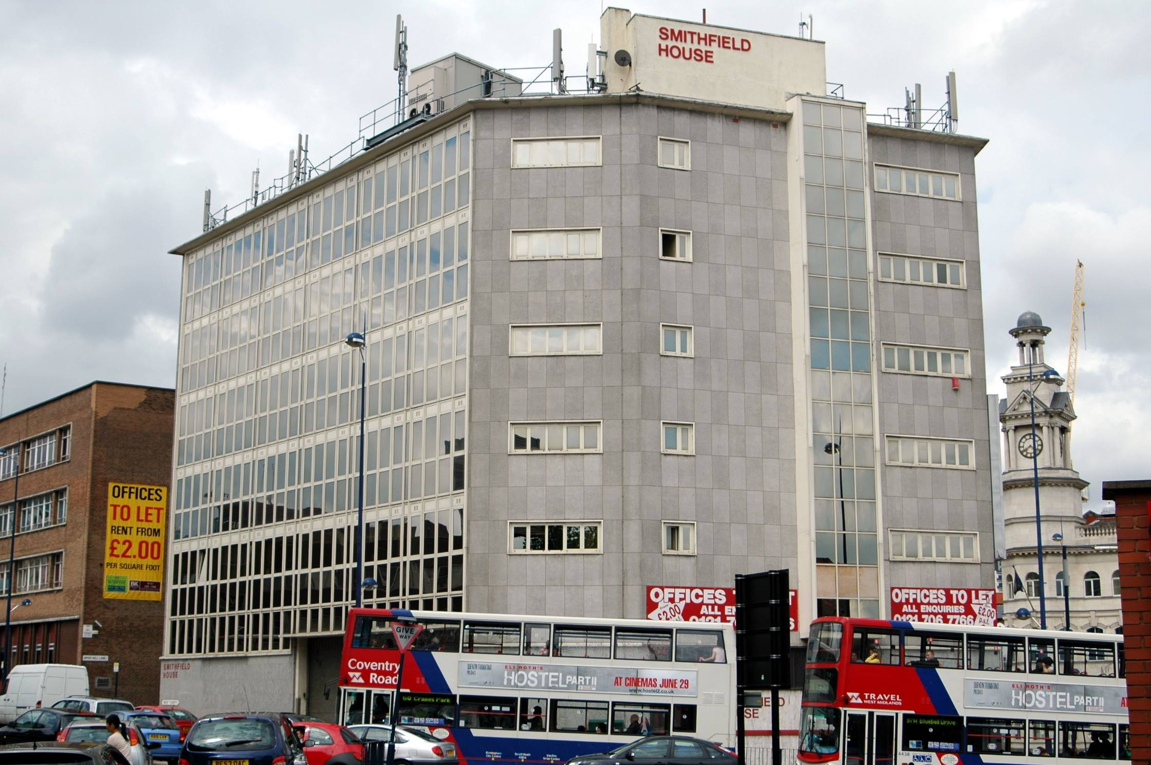 Smithfield House is a non-notable office block on Digbeth High Street. However, it's name reflects the historical significance of the site as it was once the location of Smithfield Market which was built on the Birmingham Manor House.